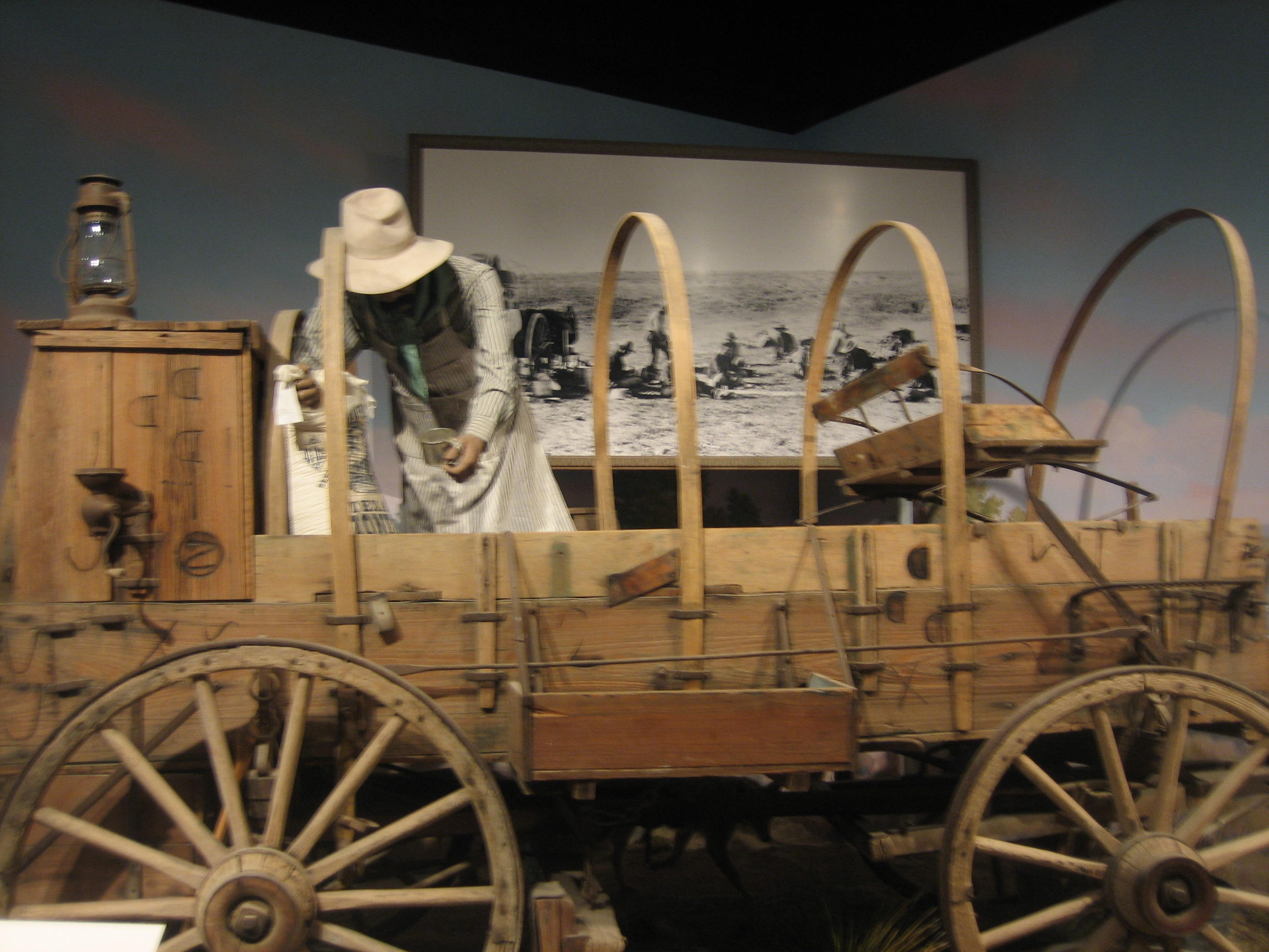 Chuckwagon, Panhandle–Plains Historical Museum